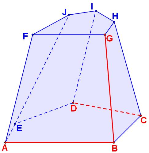 Polyhedron with highlighted edges